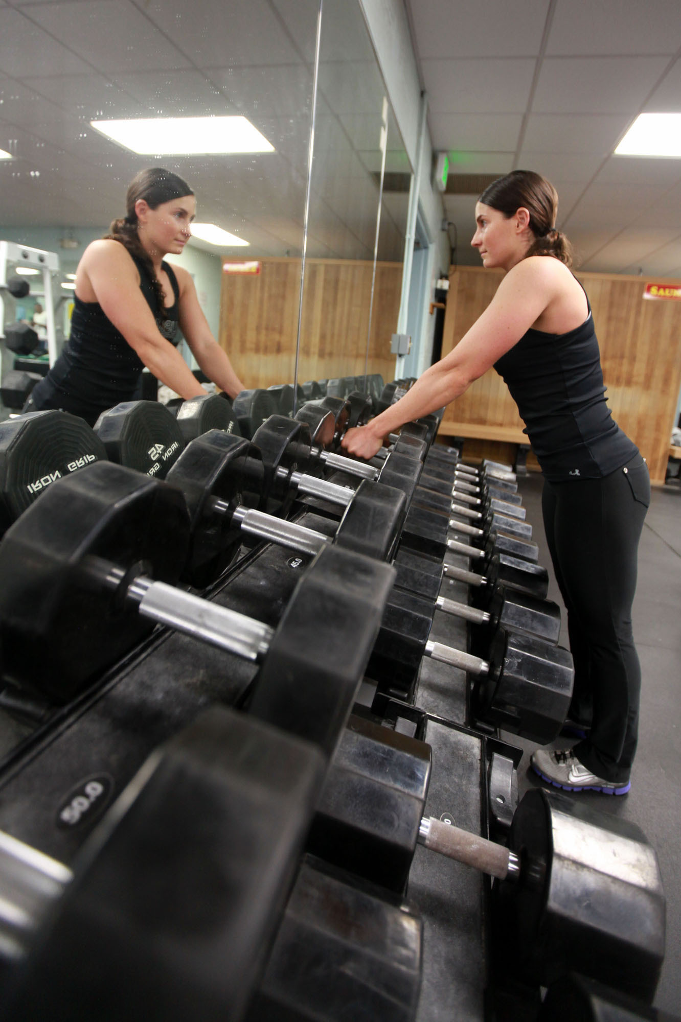 First Lt. Jennifer Silvers, the Marine Fighter Attack Squadron 122 material control officer, does bicep curls at the Air Station Fitness Center, Aug. 8.